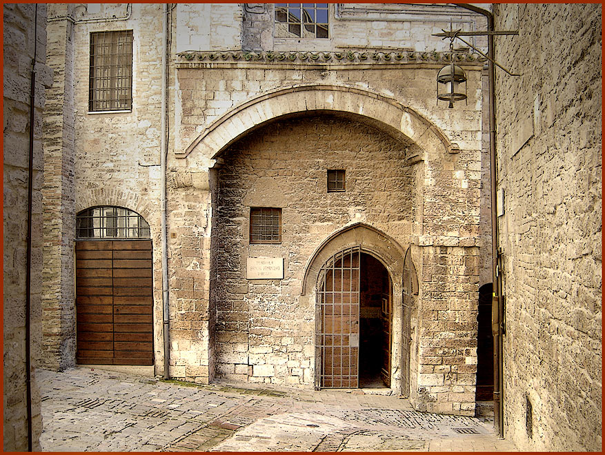 Birthplace of Francis of Assisi, AssisiLatina: Plateola Sancti Francisci Parvuli (Assisi)